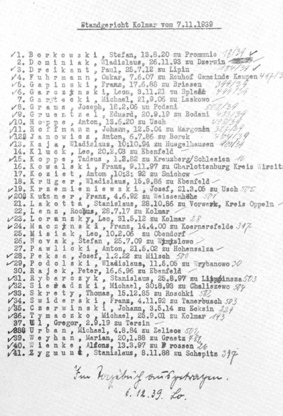 Victims of Morzewskie Hills